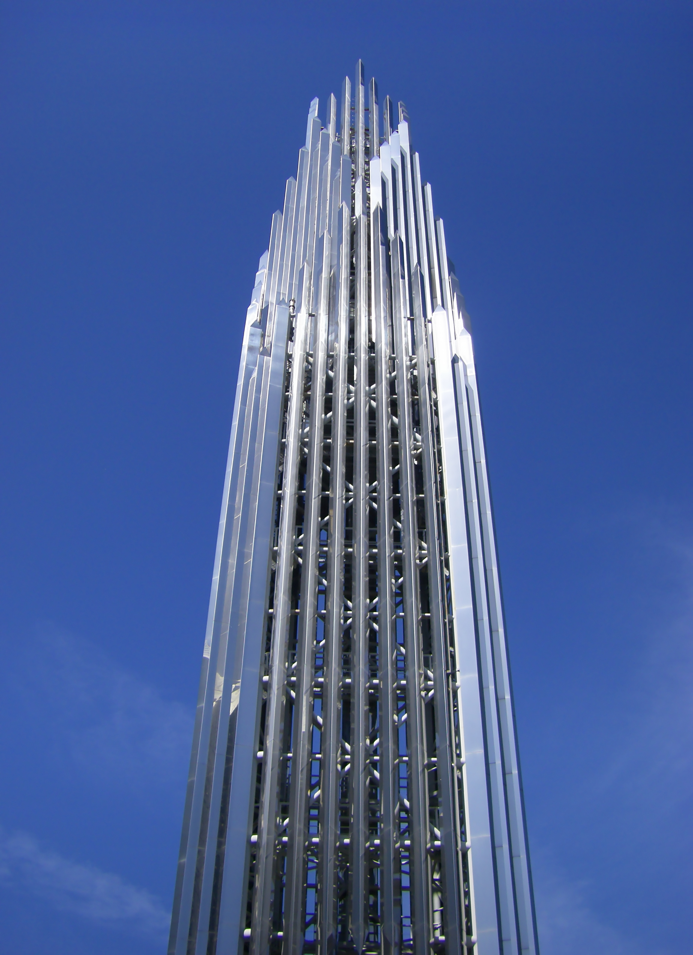 Looking up the spire of the Crystal Cathedral in Garden Grove (near Anaheim/Los Angeles).